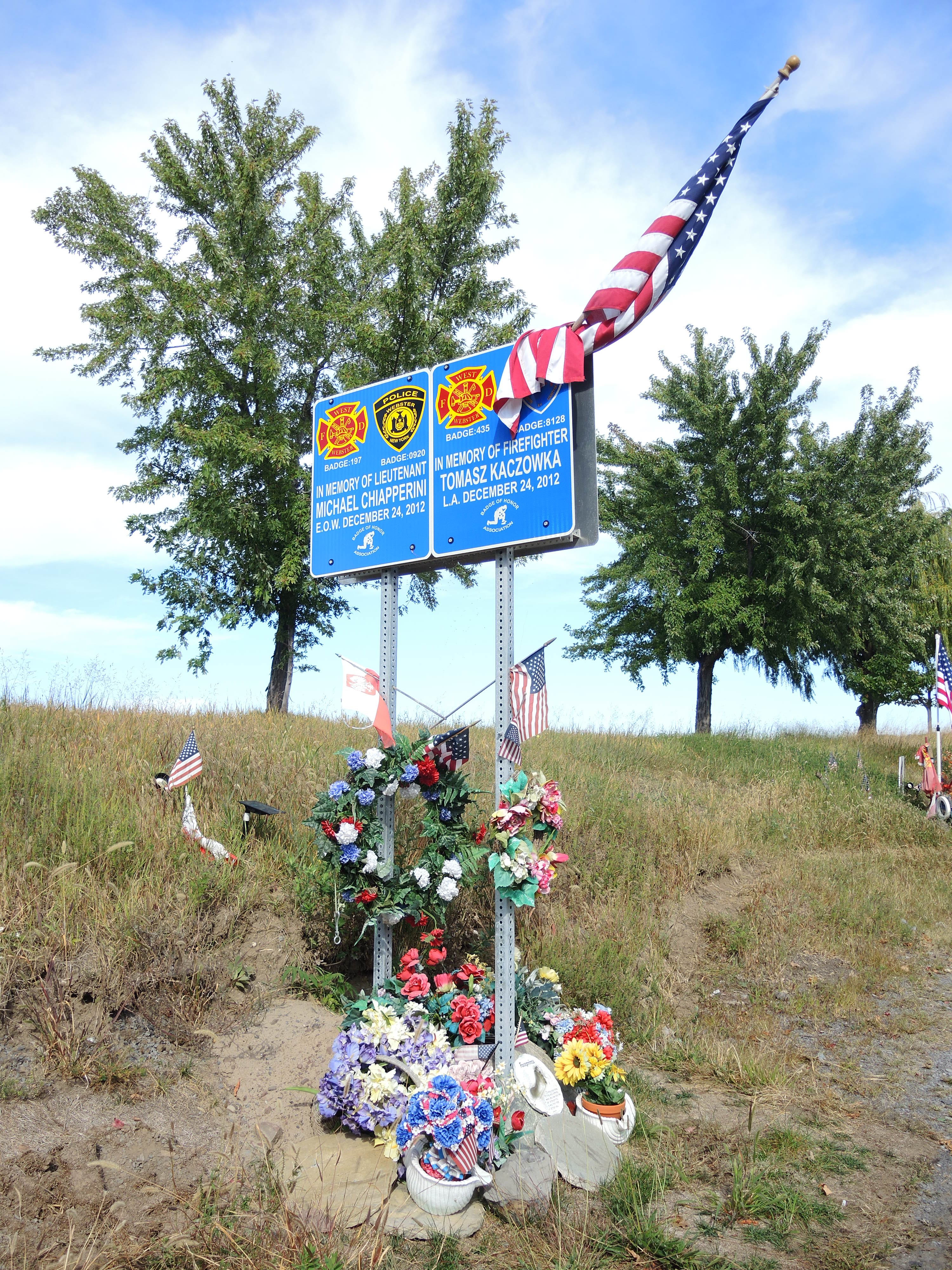 Monroe County memorial for Michael Chiapperini and Tomasz Kaczowka